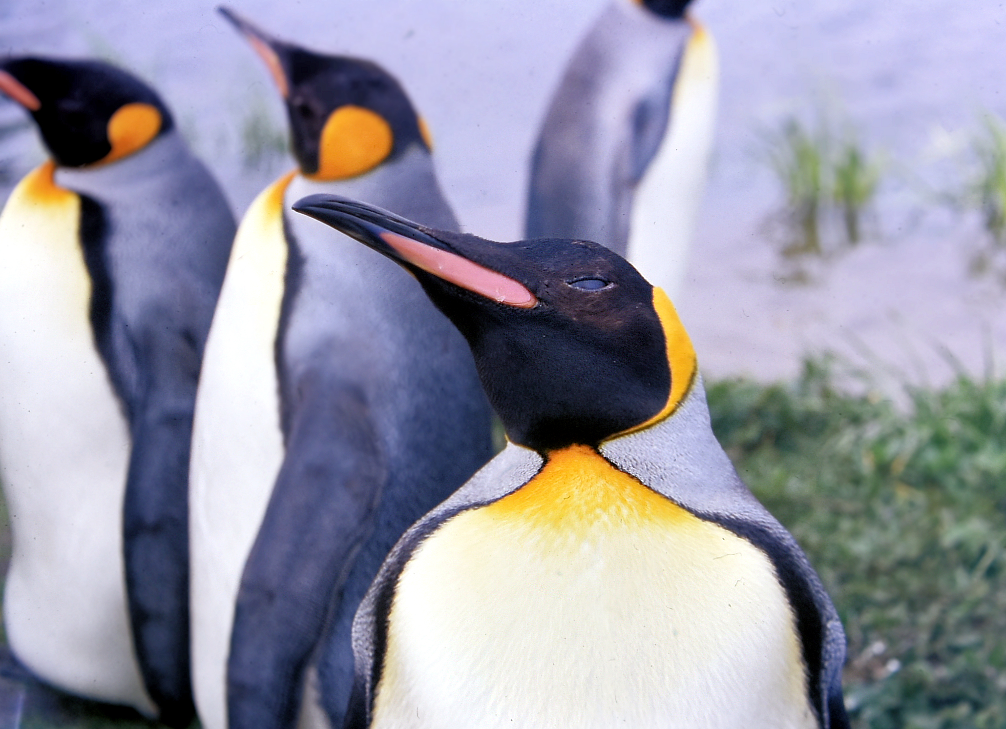 King Penguin Scientific name: Aptenodytes patagonicus